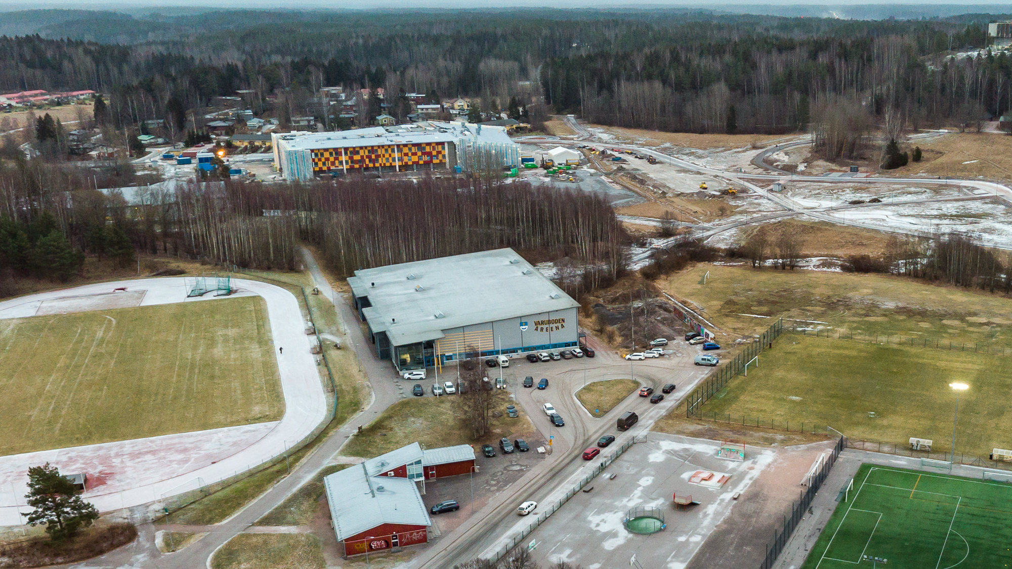 Varuboden Areena ice-hockey and sports hall in Kirkkonummi, Finland